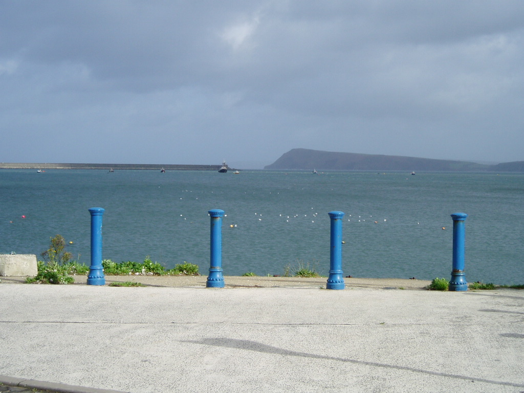 Goodwick Sea Front Taken by Medicore fluff